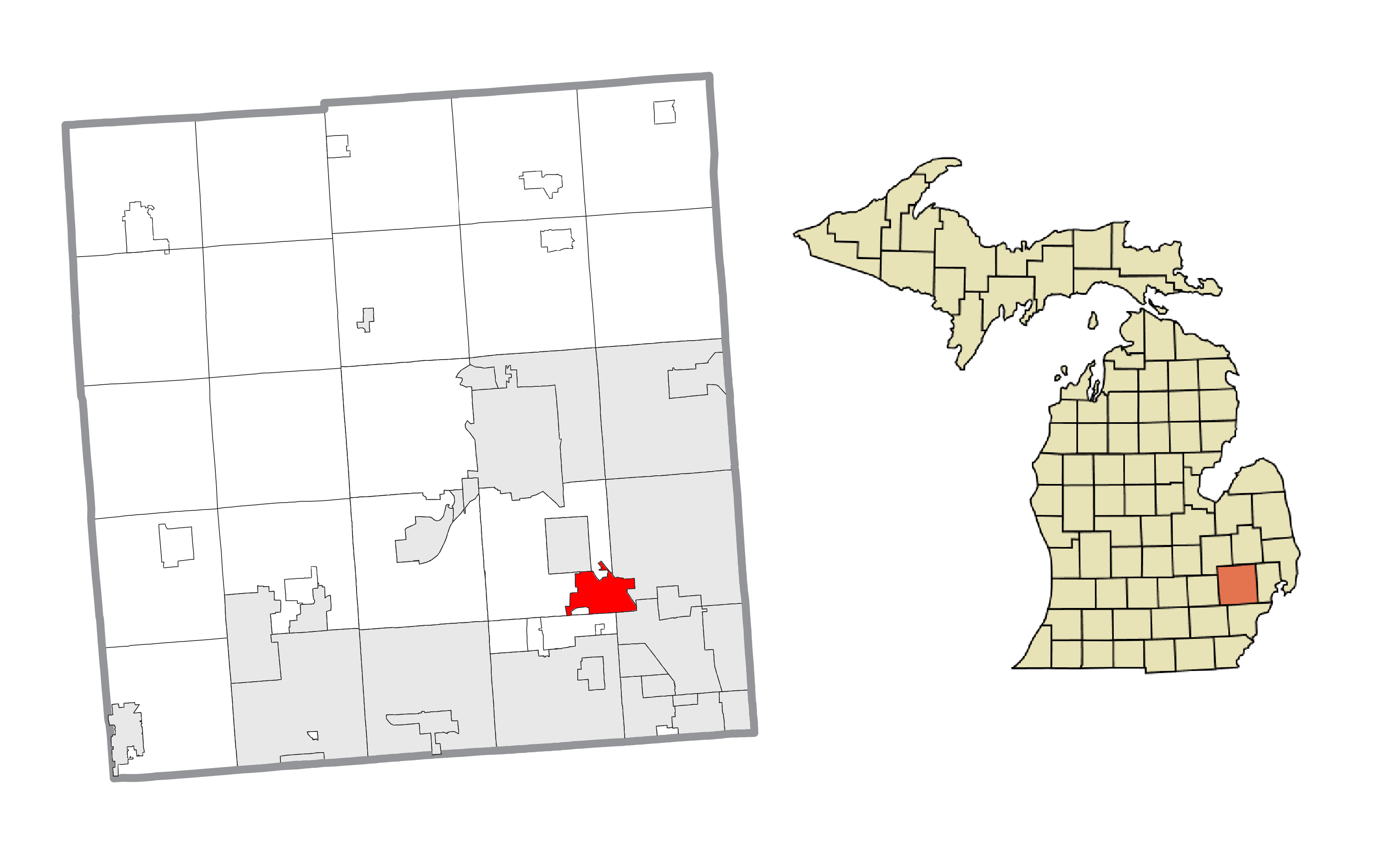 Birmingham, MI